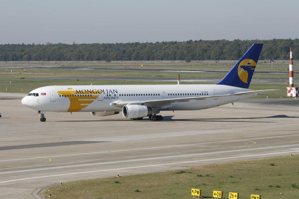 A Boeing 767-300 of Mongolian Ailines at Berlin Tegel Airport.